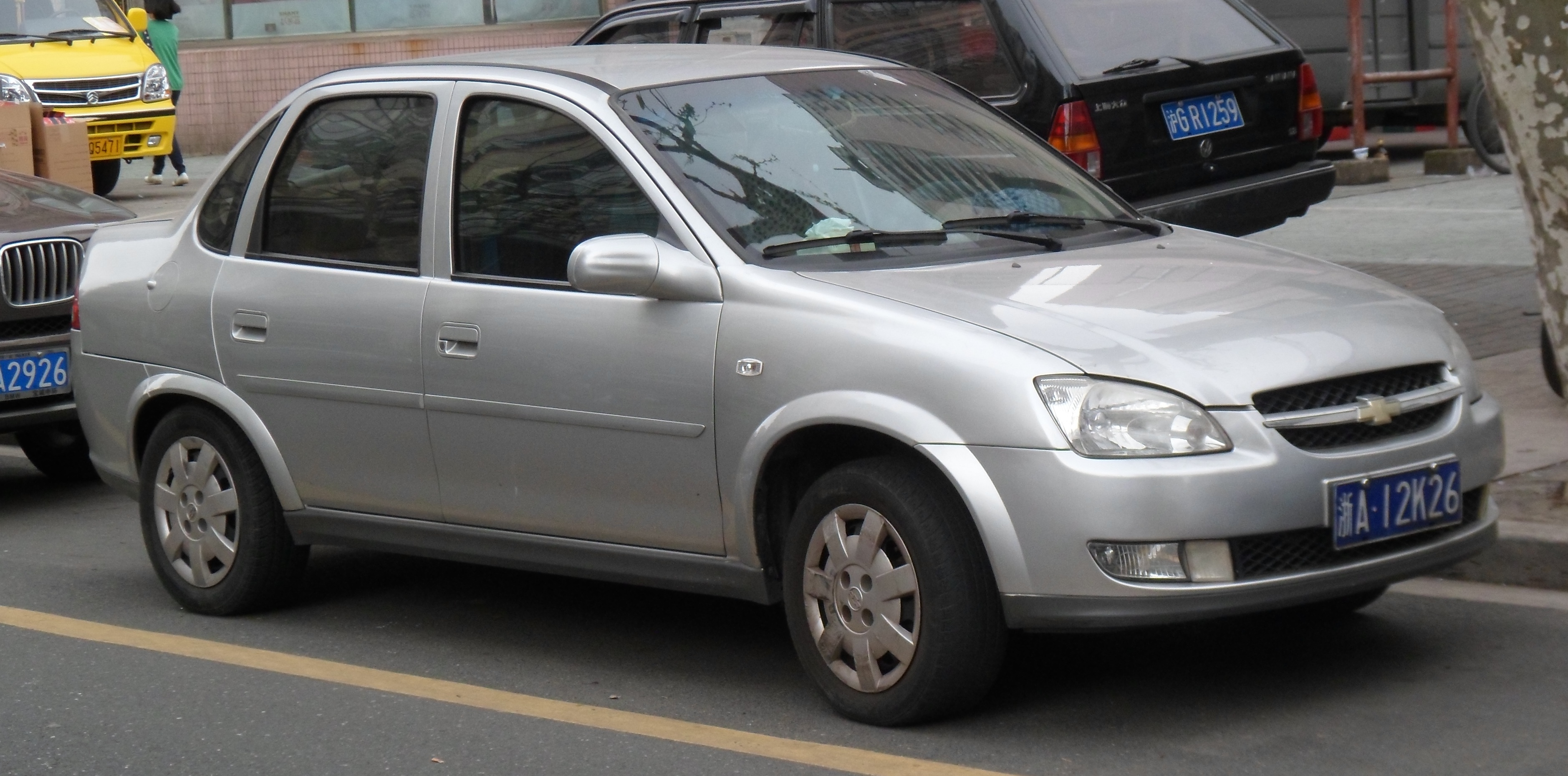 Chevrolet Sail photographed in Shanghai, China.